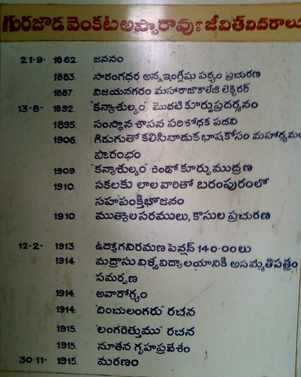 Life History of Gurajada Apparao dispalyed at his house (presently used as a memorial library) in Vizianagaram, Andhra Pradesh